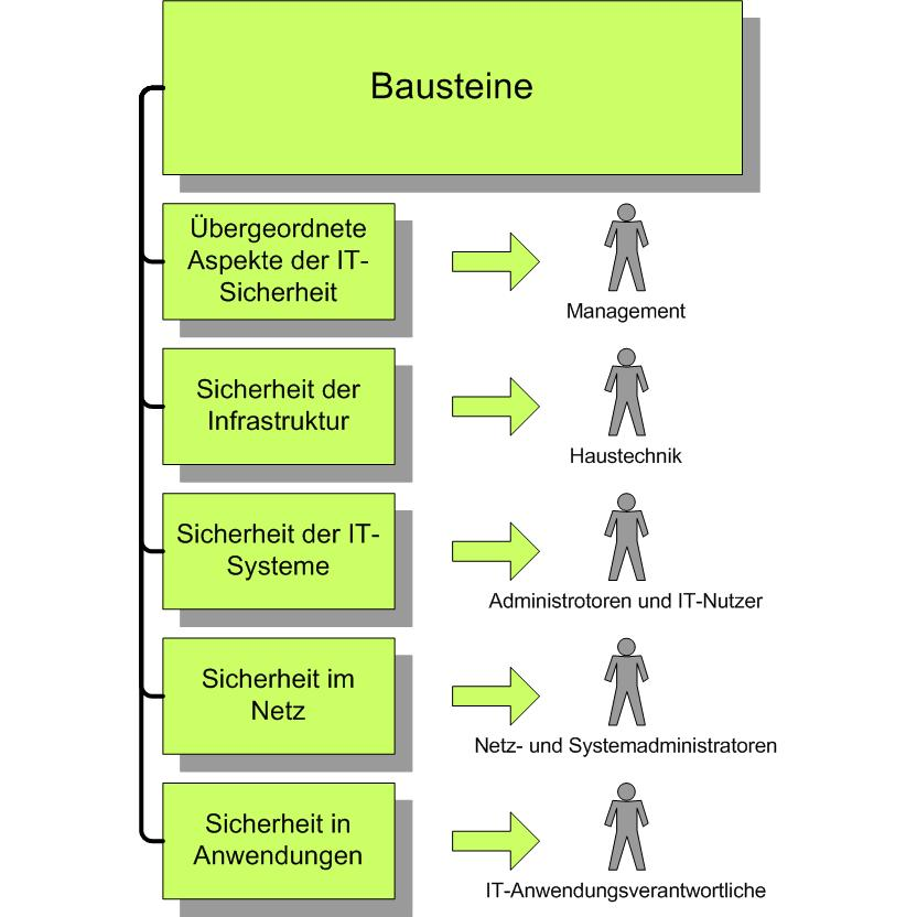 IT Baseline Protection Catalogues: Assignment of individual components to personnel groups within the respective organization